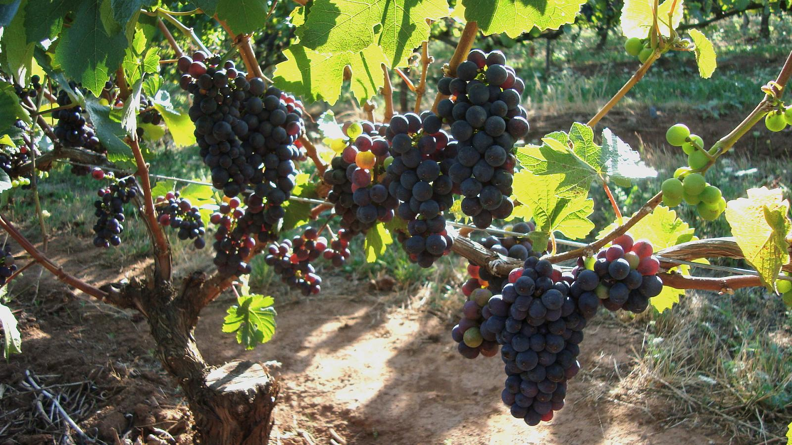 In the Oregon Willamette Valley wine region of the Dundee Hills